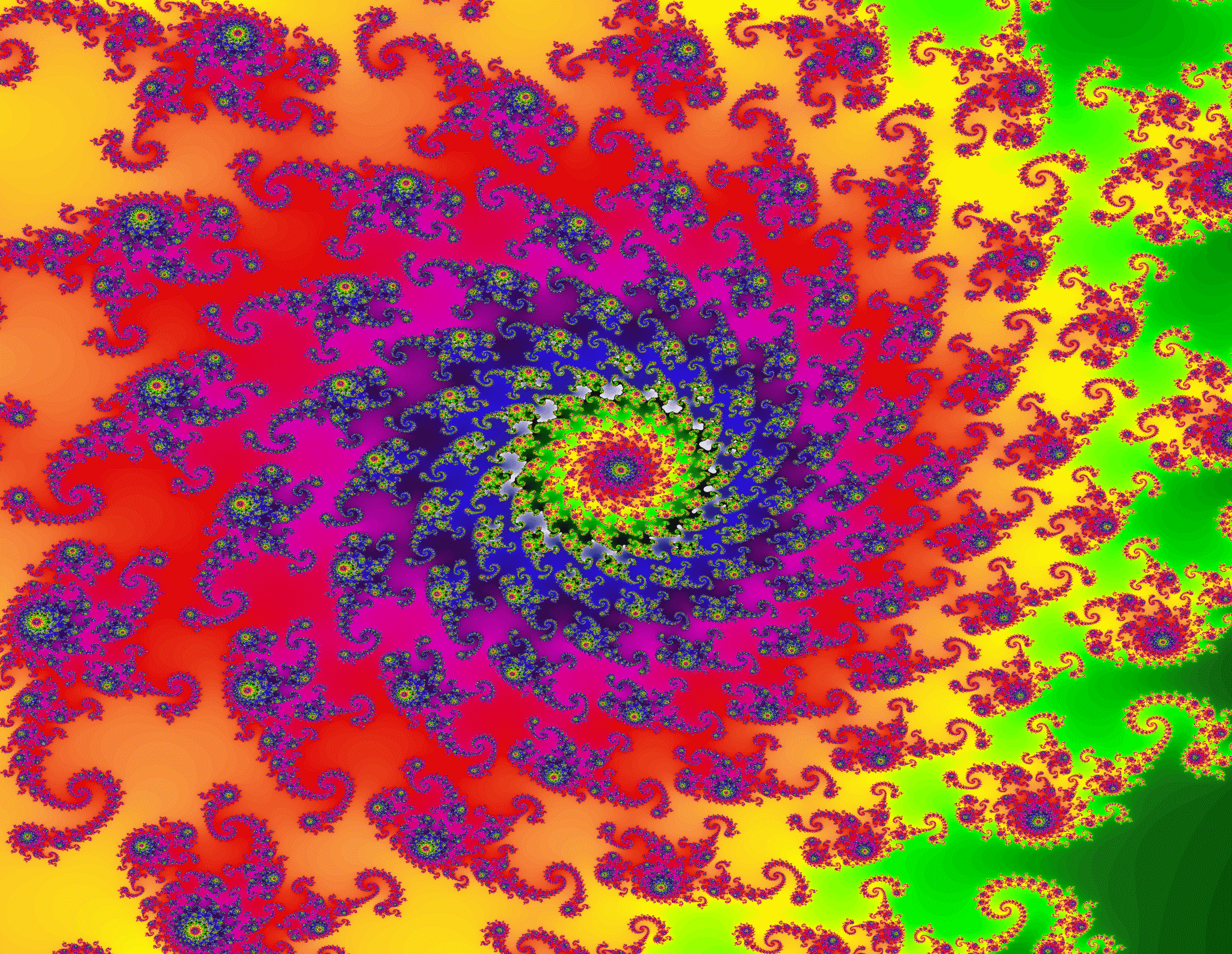 part of a julia set a=-0.8 b=-0.158